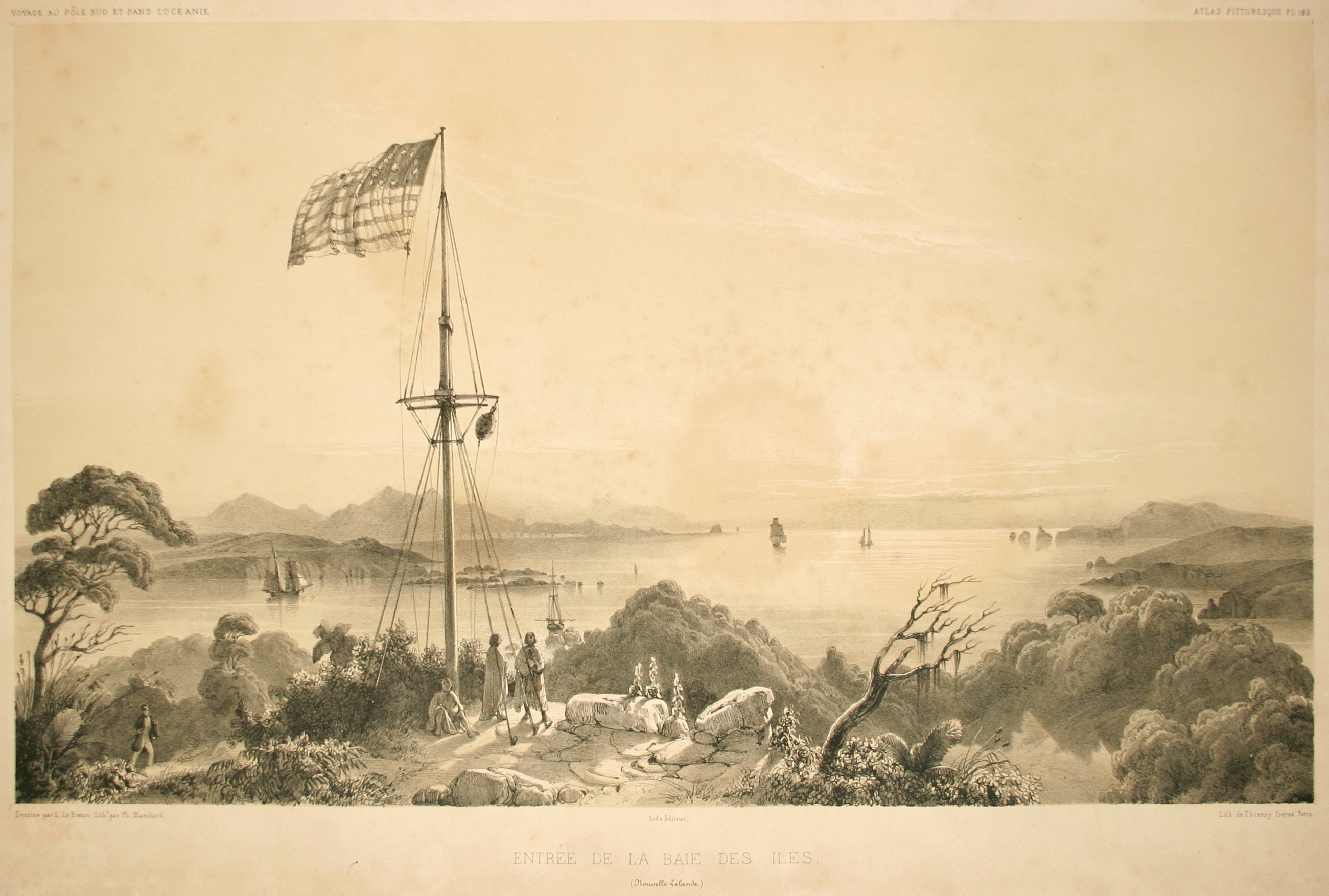 Entrance to the Bay of Islands, circa 1840. Atlas pittoresque, planche 182